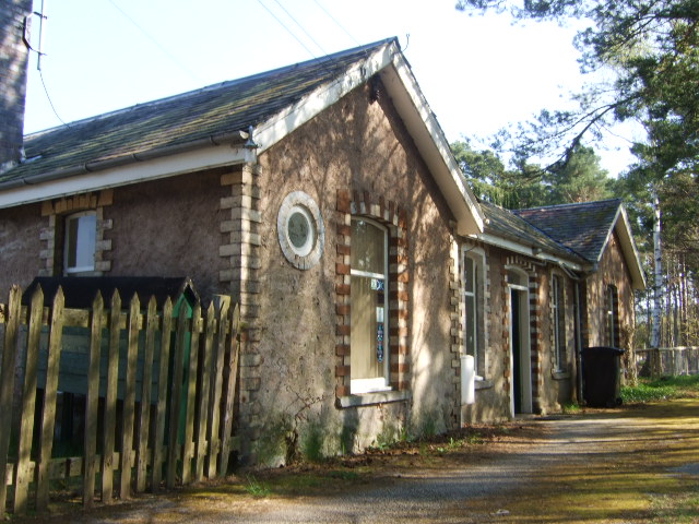 Dinnet's former Railway Station Now the Estate Factor's office.